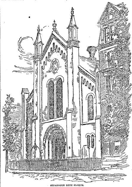 Drawing of Brooklyn's Congregation Beth Elohim. Published in the Brooklyn Eagle on October 25, 1891.